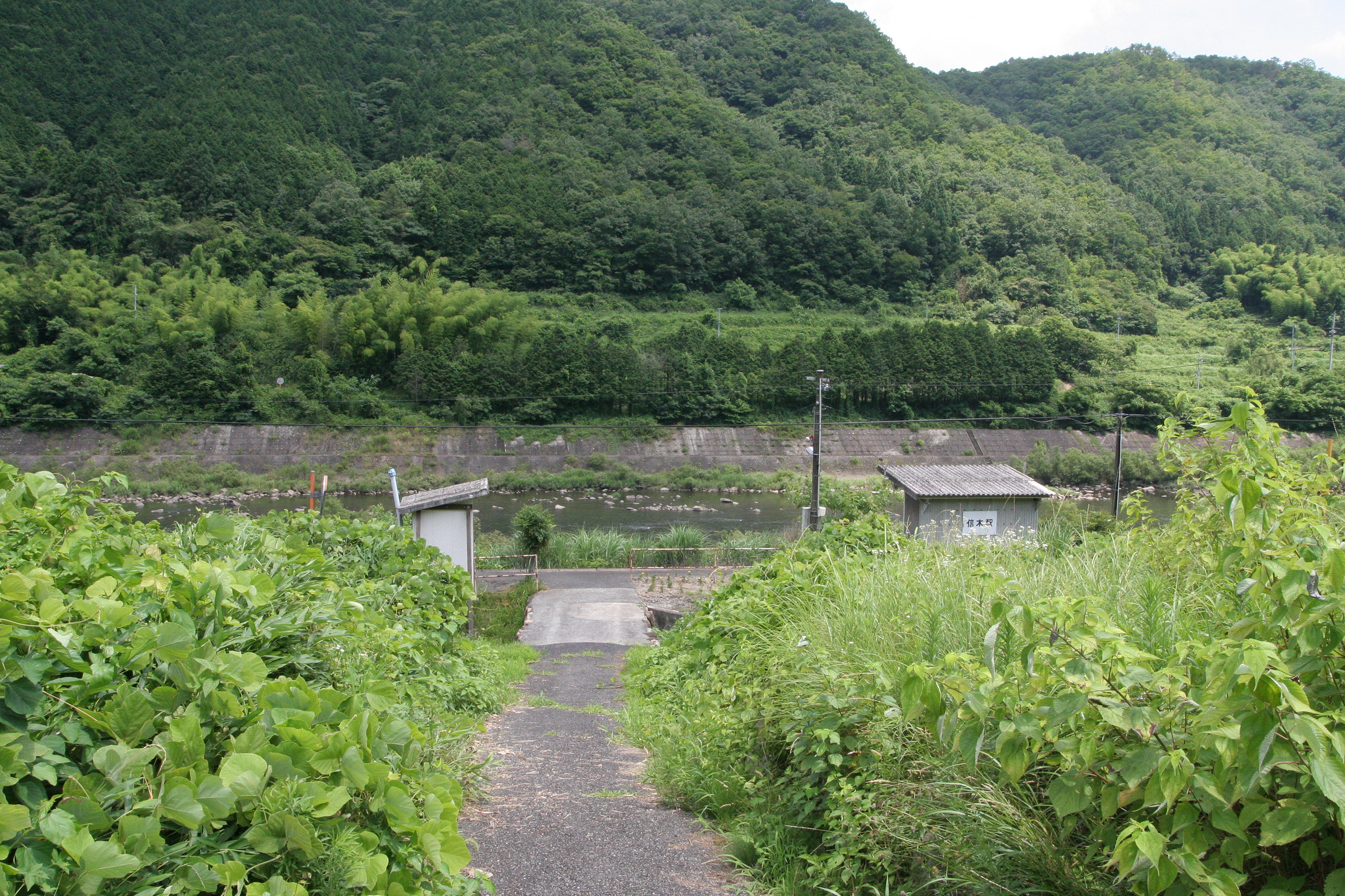 West Japan Railway Sanko Line Nobuki Station